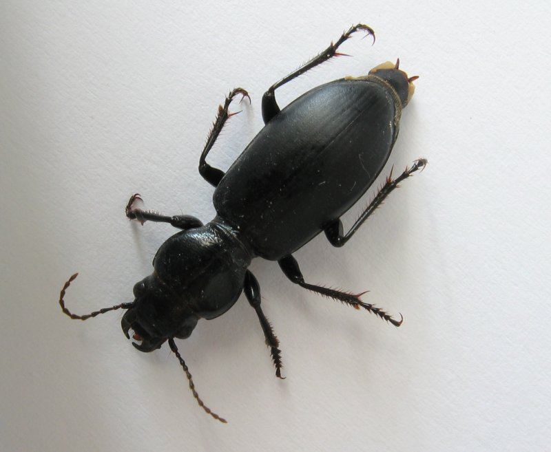 Dorsal view